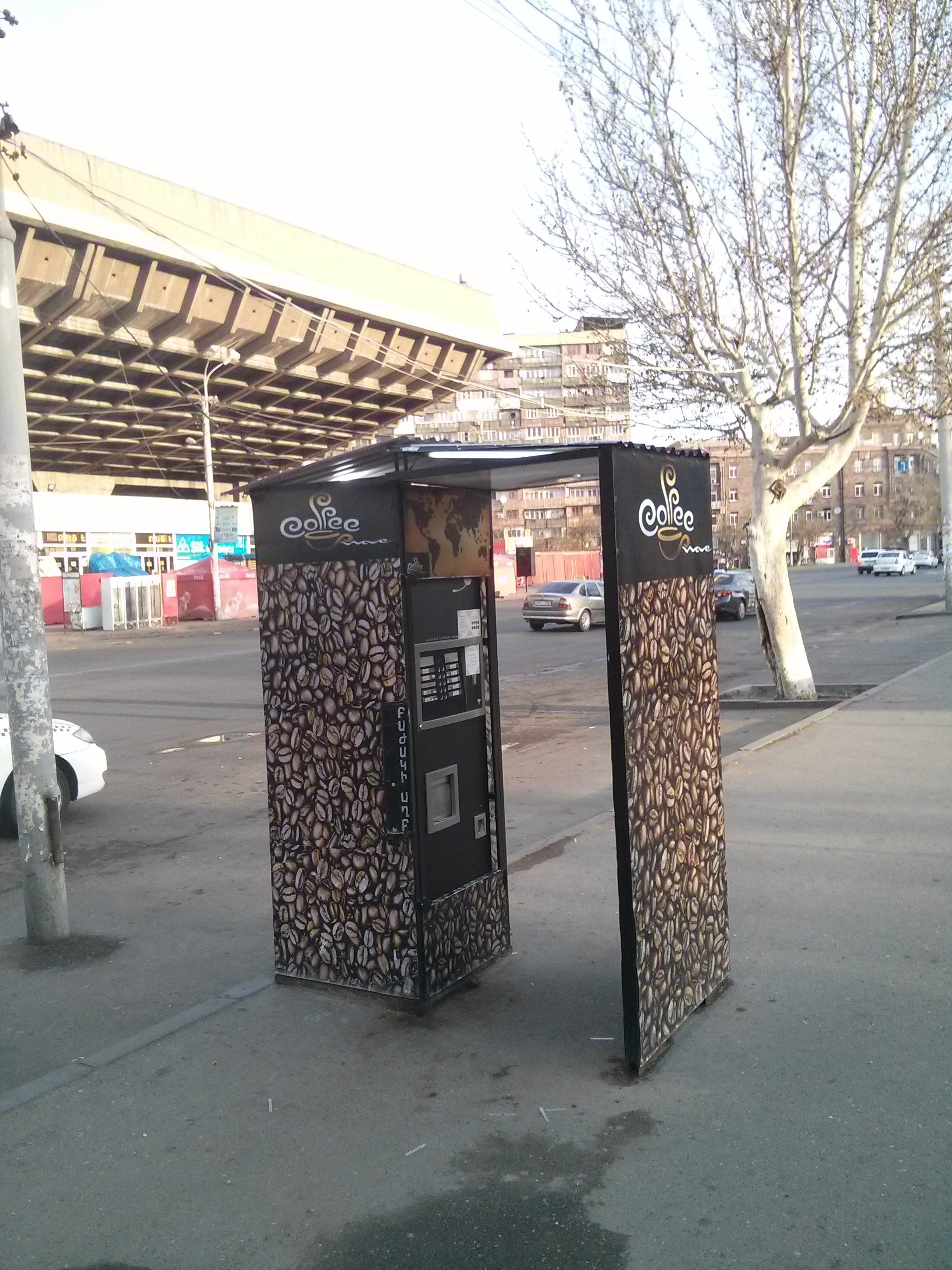 coffee machine in Yerevan, Armenia